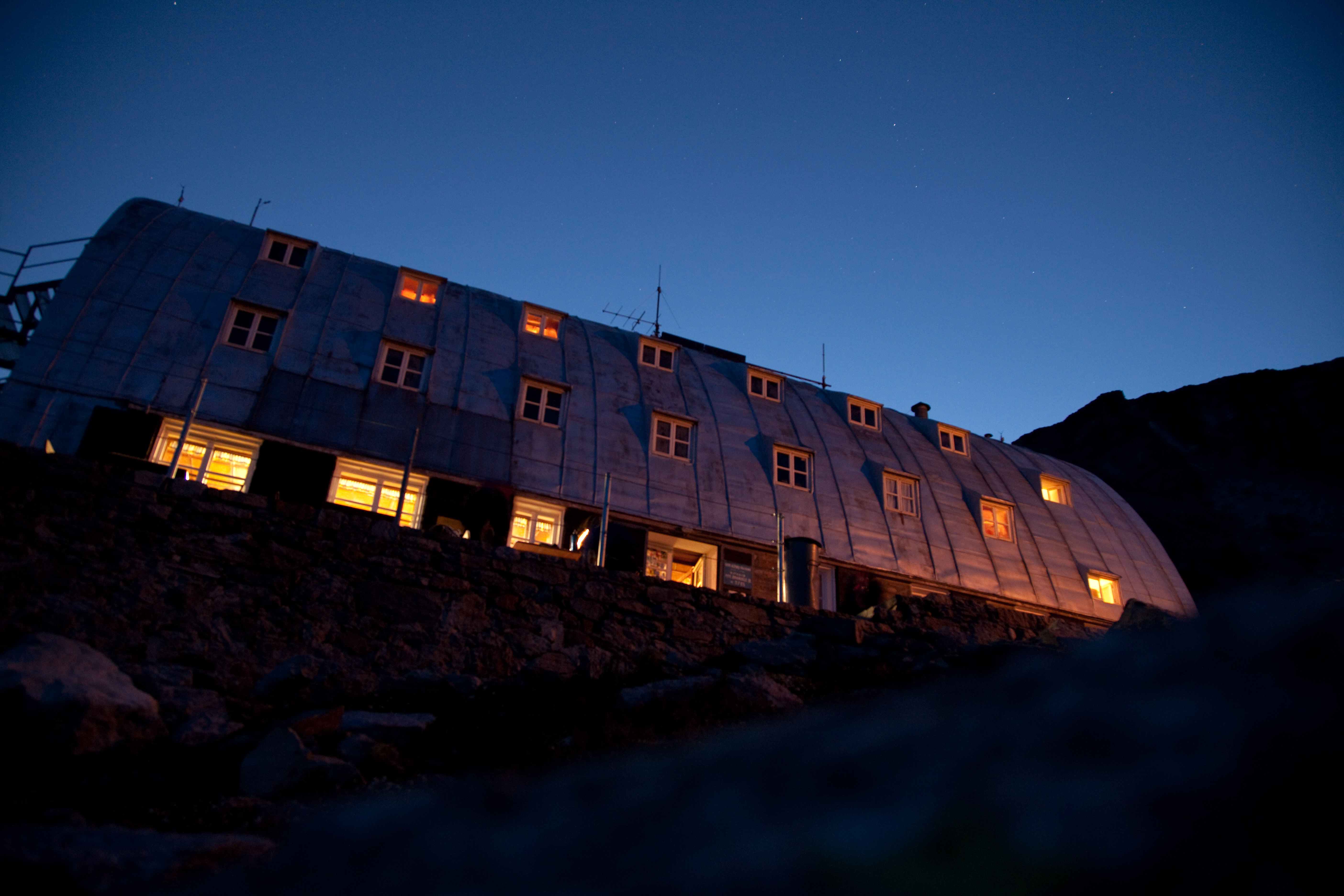 Refuge Victor-Emmanuel II, a refuge in the Alps in Aosta Valley, Italy, during the early morning. Reference